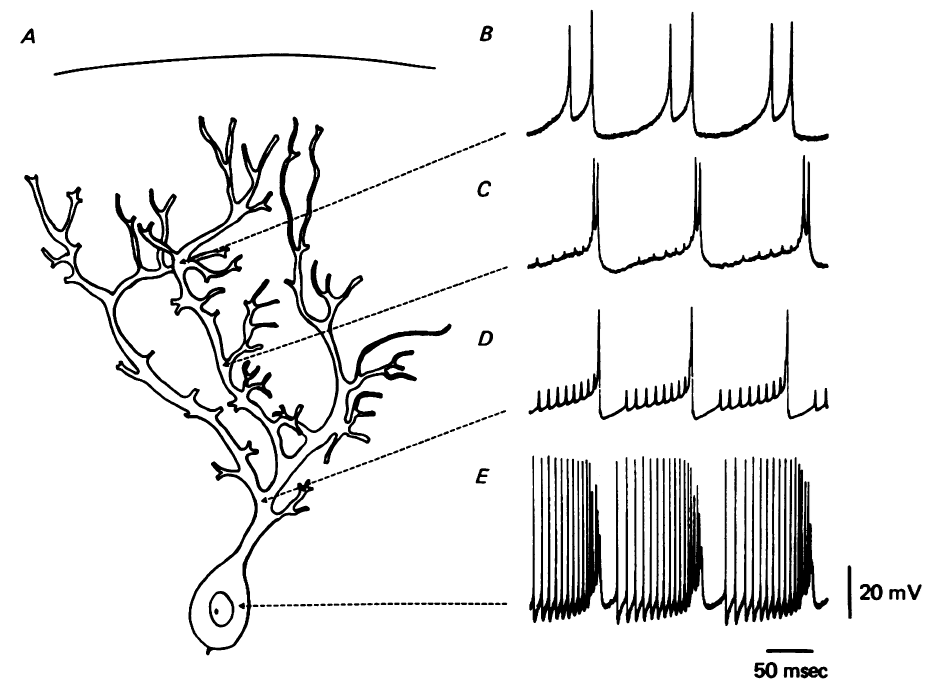 Adapted from R Llinás and M Sugimori - "Electrophysiological properties of in vitro Purkinje cell dendrites in mammalian cerebellar slices". Description: Composite picture showing the relationship between somatic and dendritic action potentials following DC depolarization through the recording electrode. A clear shift in amplitude of the s.s. against the dendritic Ca-dependent potentials is seen when comparing the more superficial recording in B with the somatic recording in E. Note that at increasing distances from the soma the fast spikes are reduced in amplitude and are barely noticeable in the more peripheral recordings. However, the prolonged and slowrising burst spikes are more prominent at dendritic level.